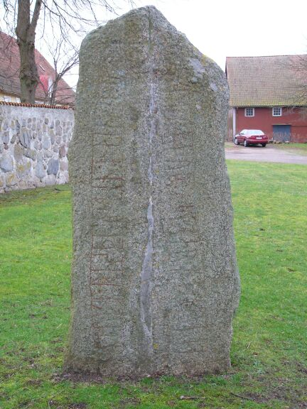 Västra Nöbbelöv runestone DR278